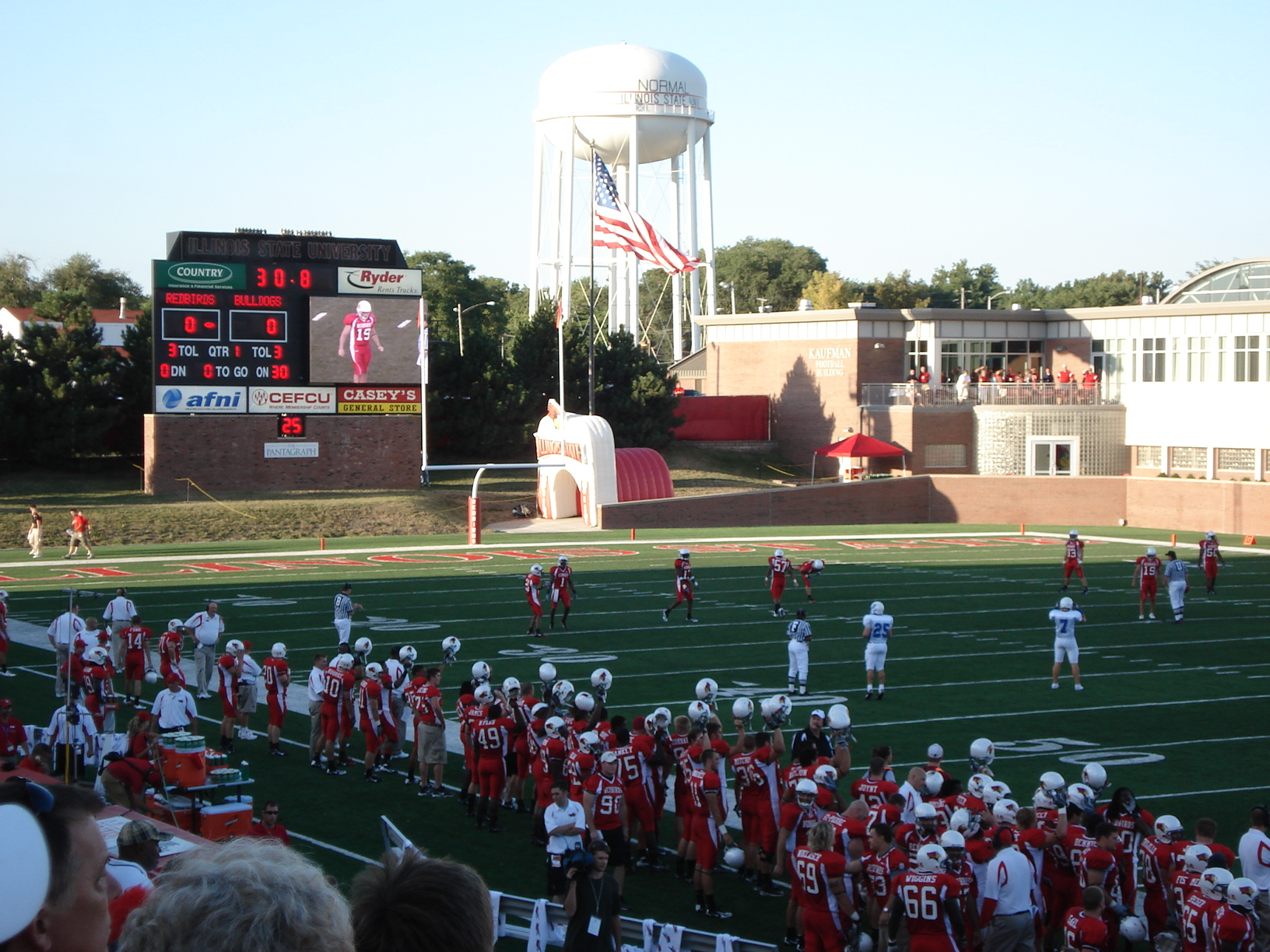 Right before the kickoff of the 2007 ISU football season at Hancock Stadium